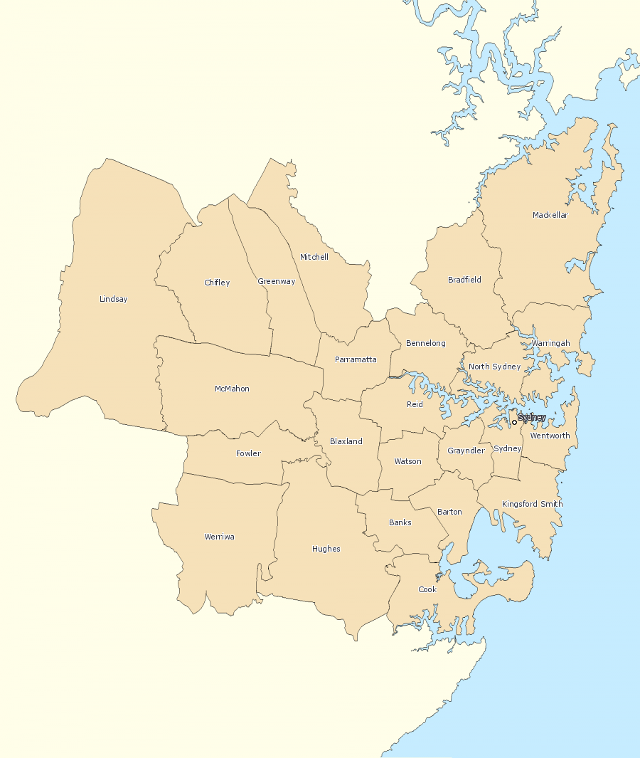 This image incorporates data that is: © Commonwealth of Australia (Australian Electoral Commission) 2009 Sydney divisions overview 2010 Top to bottom, left to right: Lindsay; Chifley; Greenway; Mitchell; Bradfield; Mackellar Parramatta; Bennelong; North Sydney; Warringah McMahon; Reid; Sydney [city within the Sydney division] Fowler; Blaxland; Watson; Grayndler; Sydney; Wentworth Werriwa; Hughes; Banks; Barton; Kingsford Smith Cook